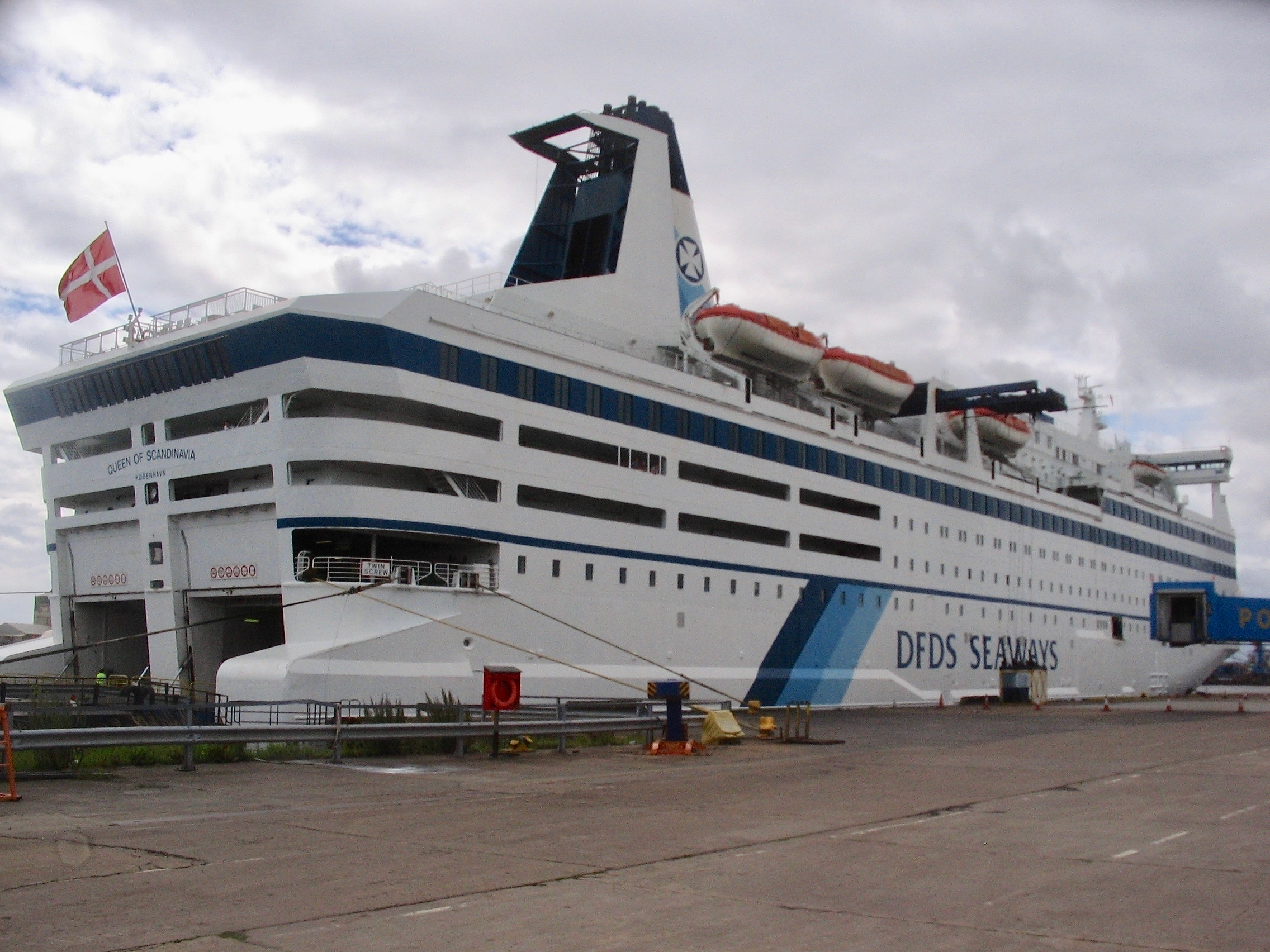 DFDS ferry Queen of Scandinavia